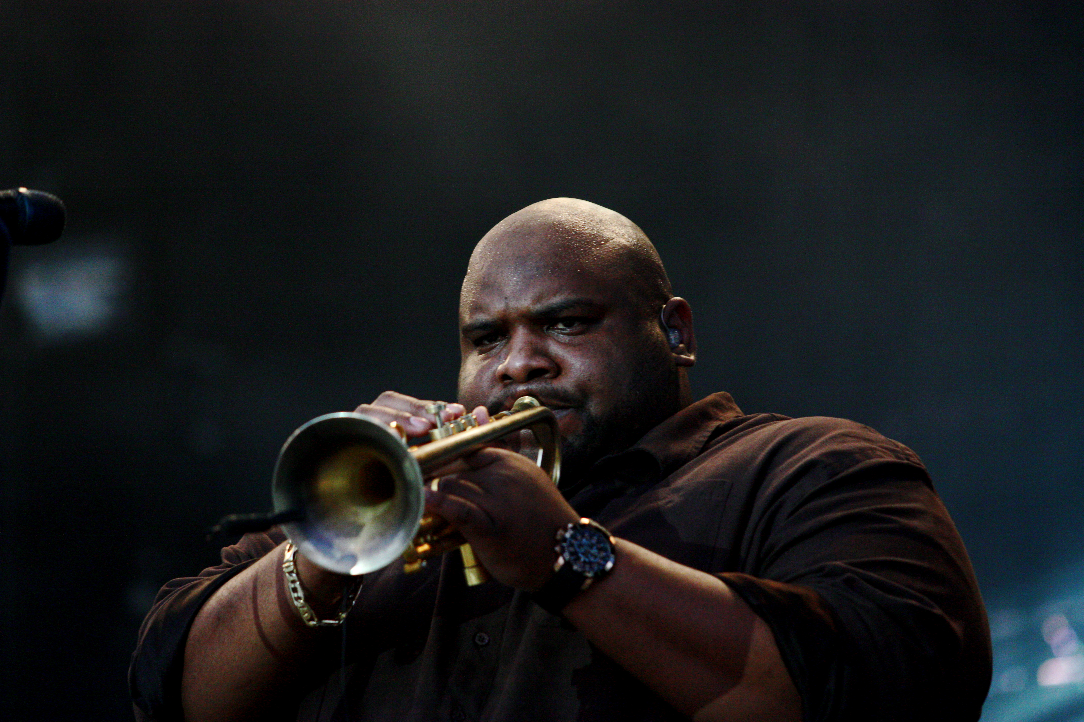 Dave Matthews Band at the Outside Lands 2009